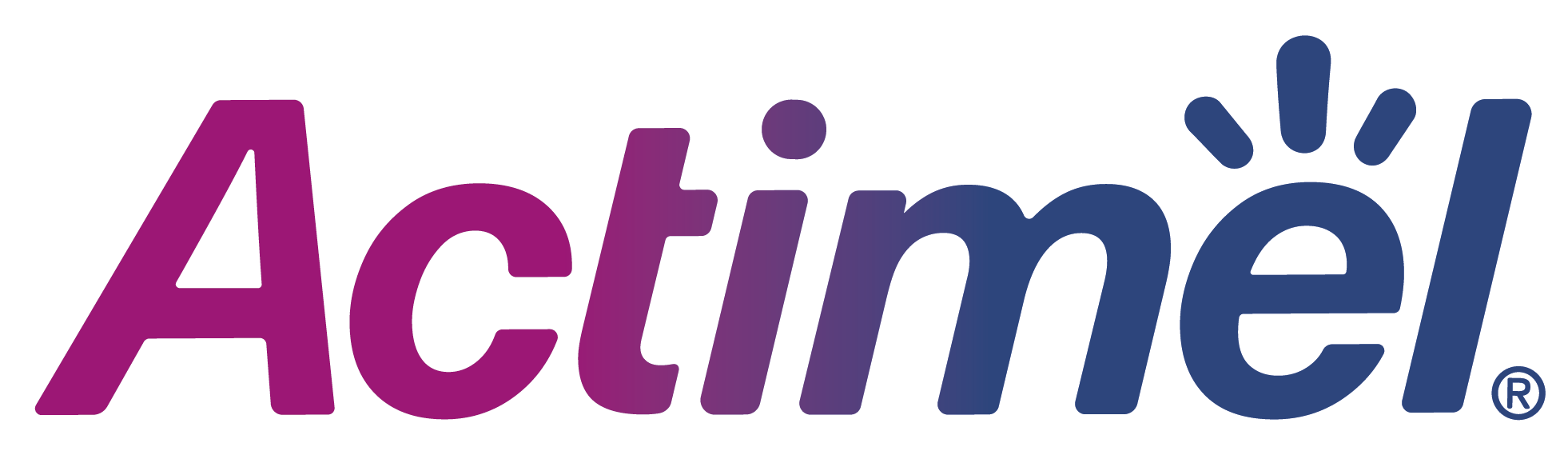 Logo of Actimel, a brand owned by Danone.